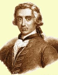 Vicente Bacallar y Sanna, Marquis of Saint Philip and Viscount of Fuentehermosa, in Italian Vincenzo Bacallar (Cagliari (Sardinia, present Italy), 6 February 1669 – The Hague (Netherlands), 11 June 1726). Nobleman, military officer, linguist, historian, politician and Spanish ambassador, born in a noble Sardinian family when the kingdom of Sardinia was part of the Spanish crown.